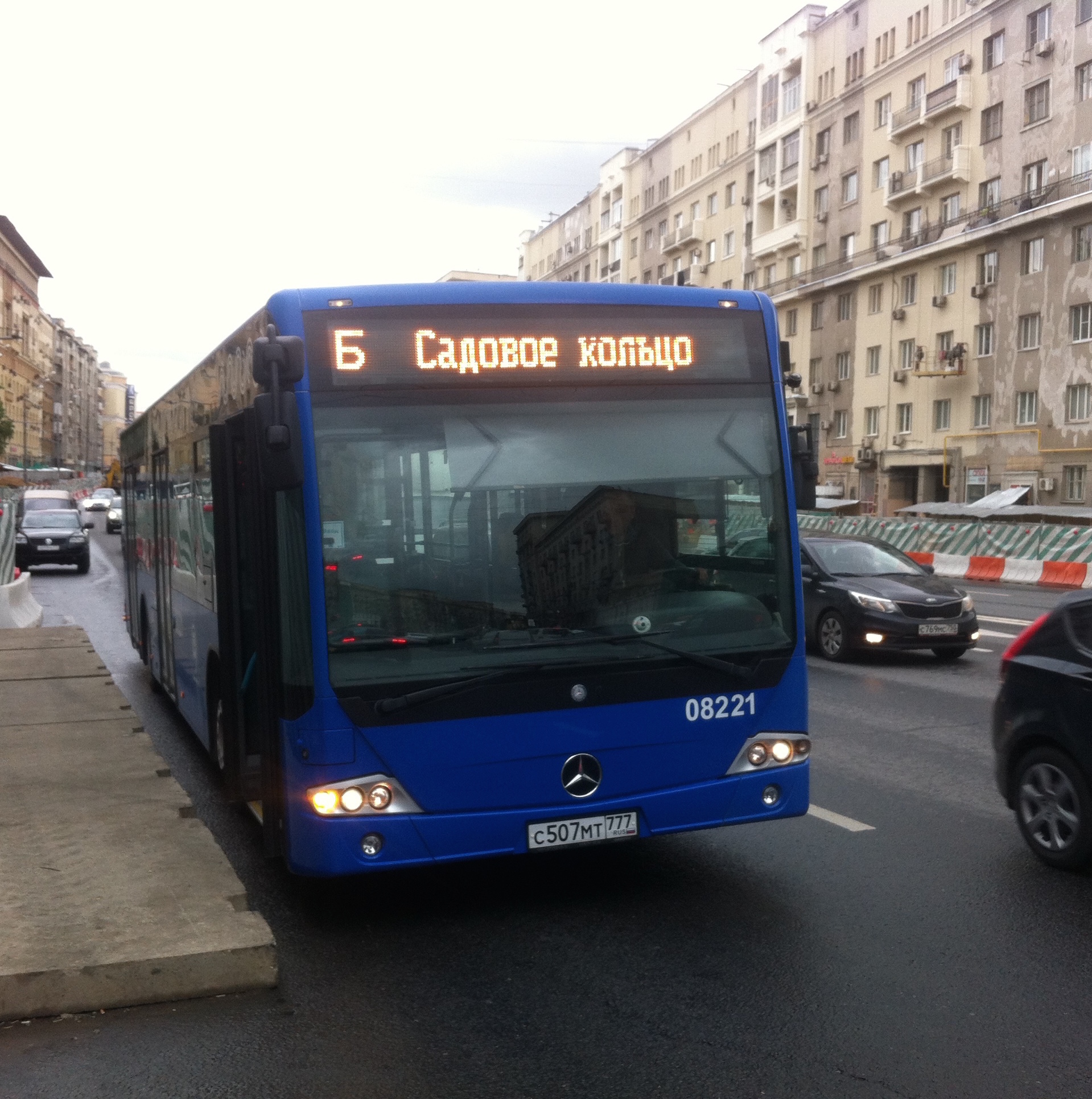 Mercedes-Benz bus, B route, Zemlianoy Val Street, Moscow, Russia